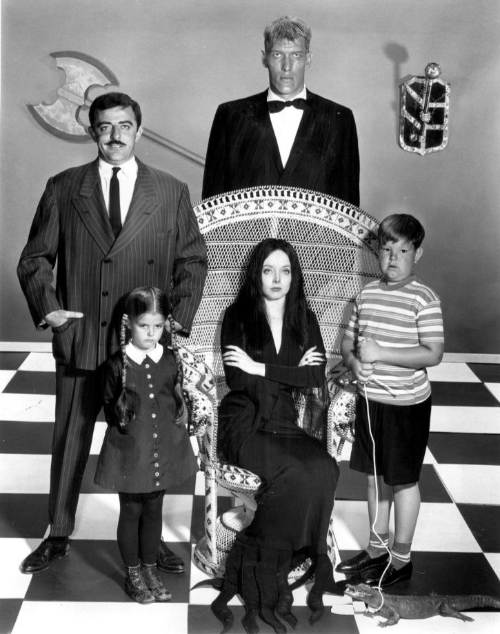 Photo of the main cast of the television program The Addams Family. Standing back from left—John Astin (Gomez), Ted Cassidy (Lurch). Standing, front—Lisa Loring (Wednesday), Ken Weatherwax (Pugsley). Seated-Carolyn Jones (Morticia).